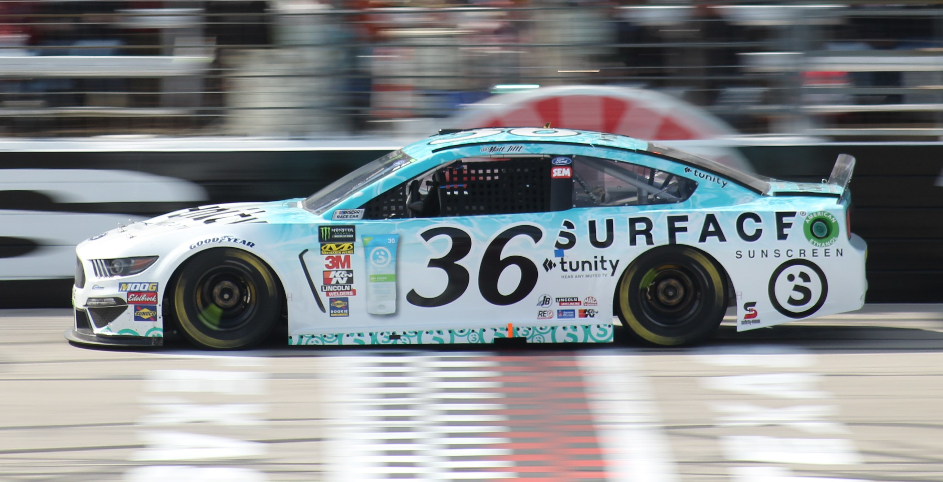 2019 O'Reilly Auto Parts 500